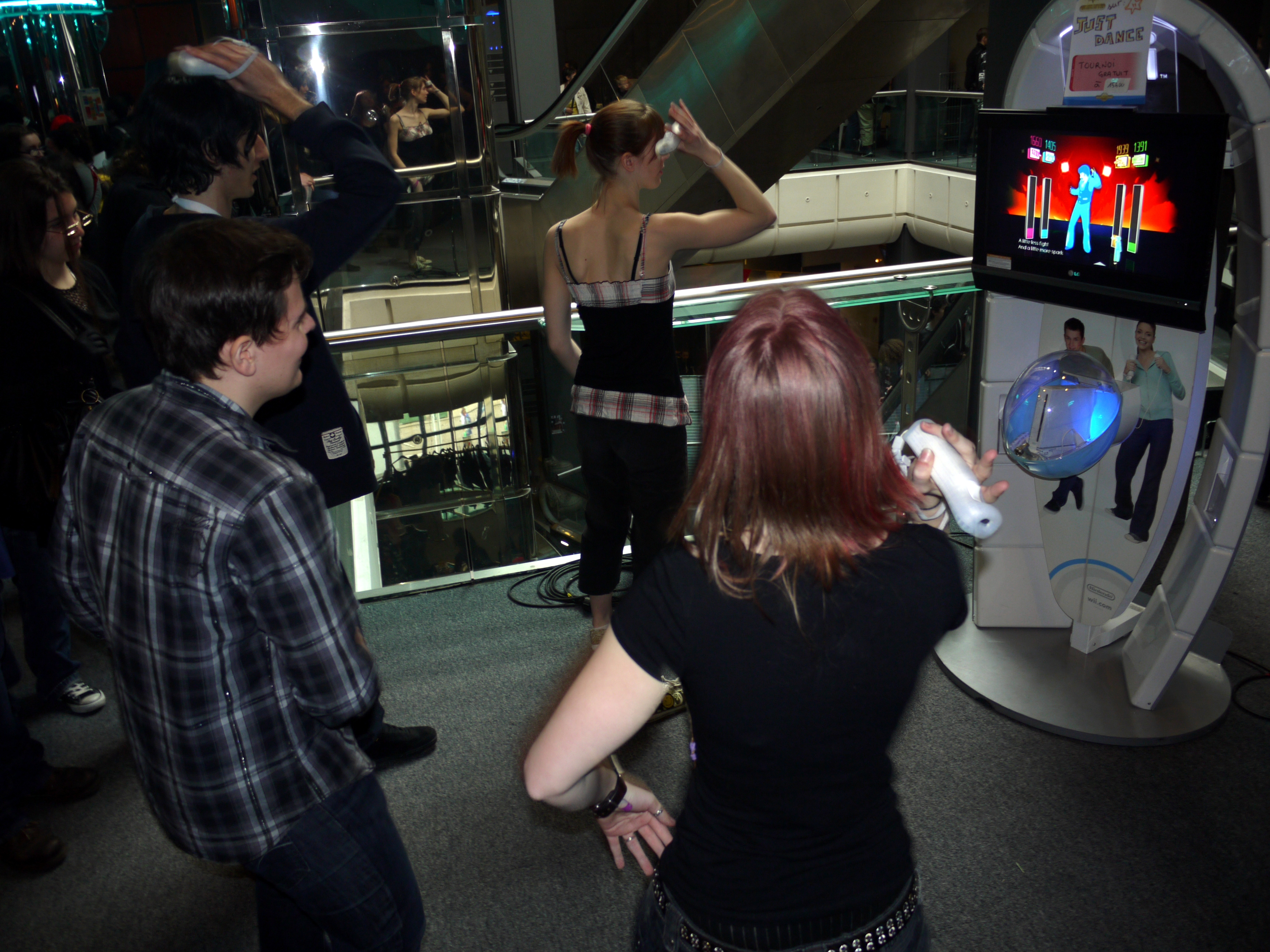 Mang'Azur festival of Toulon - official site